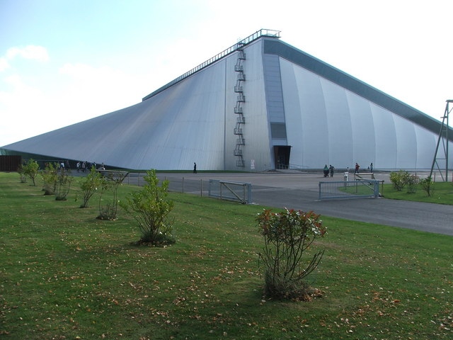 Cold War Museum A striking modern building in which aircraft are suspended on wires at odd angles, giving the impression of an enthusiast's attic bedroom. The purists hate the display because you can't easily get a straight view of a single aircraft. It's an ingenious way of fitting them all in, though.